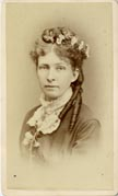 Mary Ellen Pulsifer Ames. San Jose, California. Feb. 8th 1877. Wright's Art and Portrait Gallery, No. 494 Santa Clara Street, San Jose, California. University and Jepson Herbaria Archives, University of California, Berkeley.